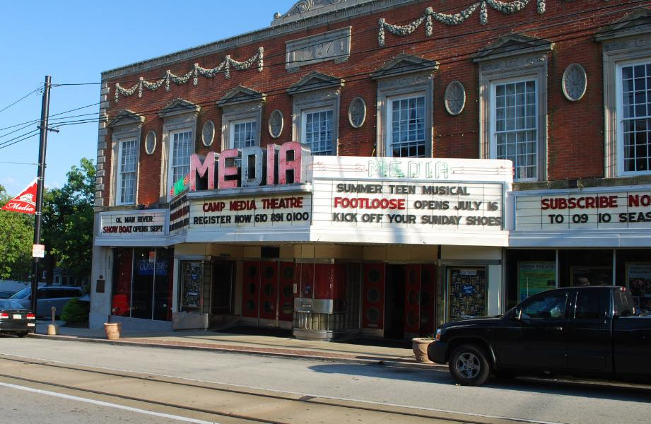 Media Theatre in Media, Pennsylvania.